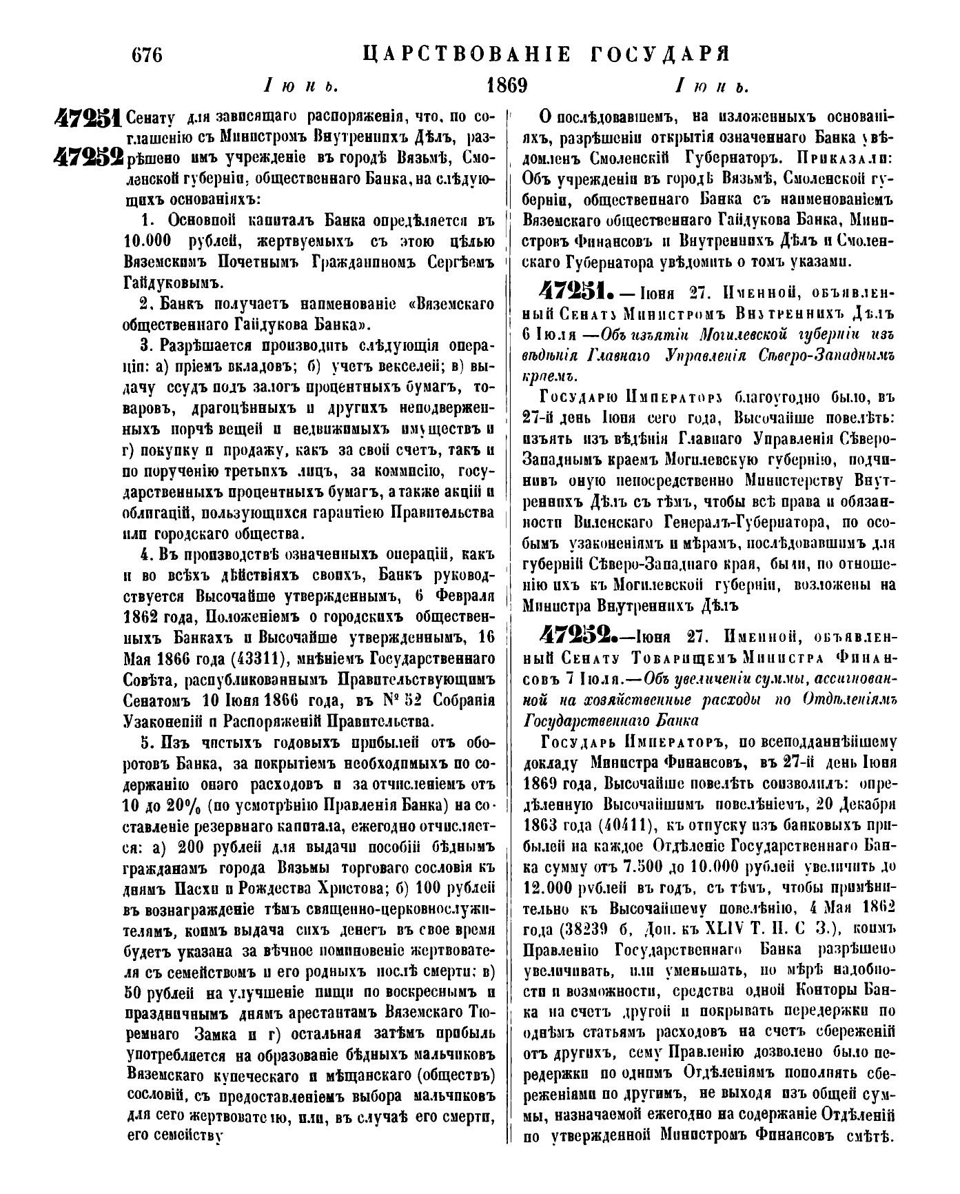 Complete Collection of Laws of the Russian Empire. Vol. 2, Т.44 nr 47251 - page 676, 1869 AD